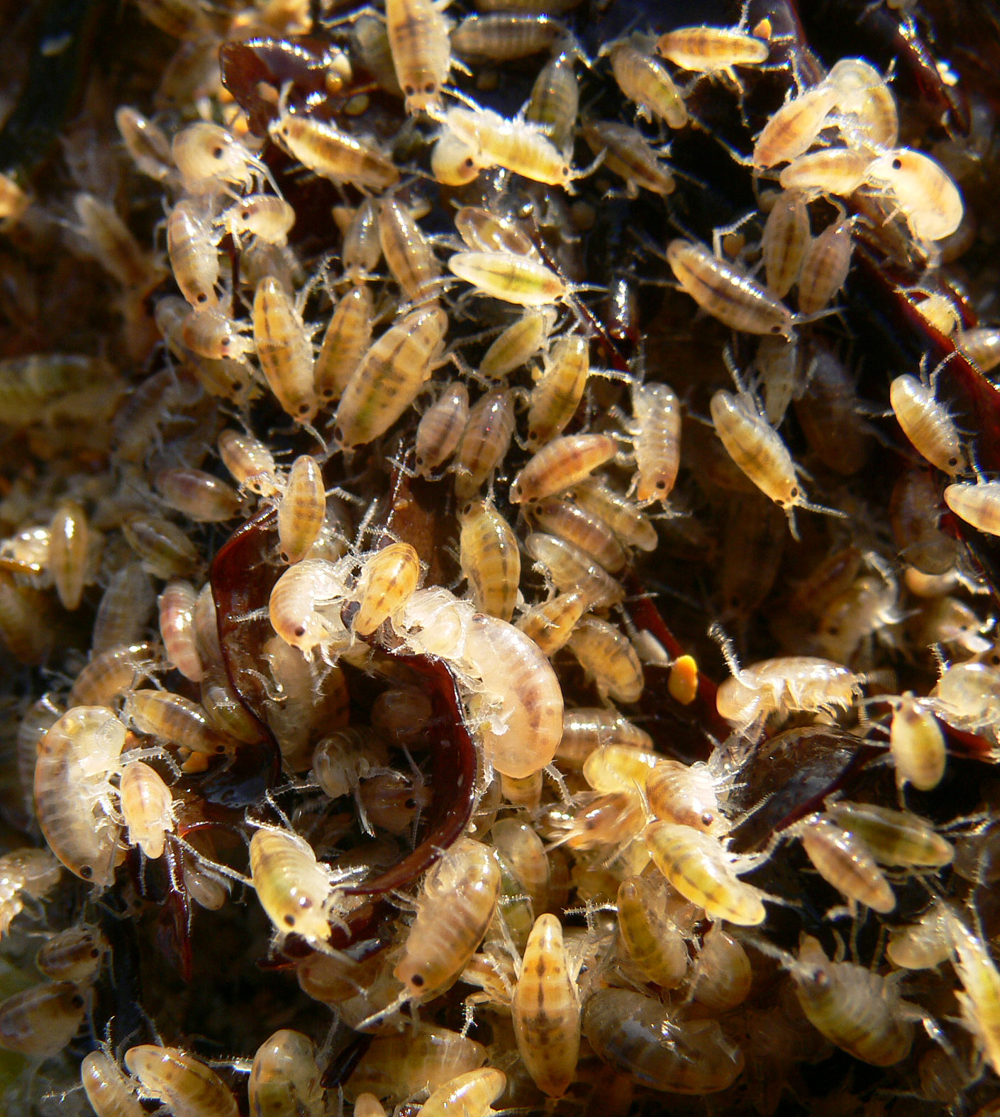 Sand flea. Britain (La Palud, near Crozon-Morgat, France)